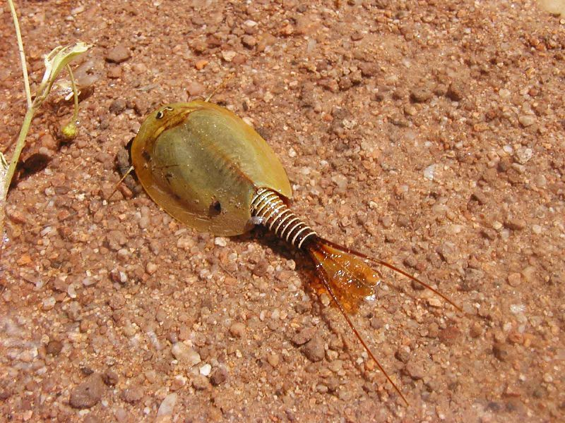 Lepidurus apus, a shell shrimp found in Gavoty Lake (Besse-sur-Isolle - Provence)